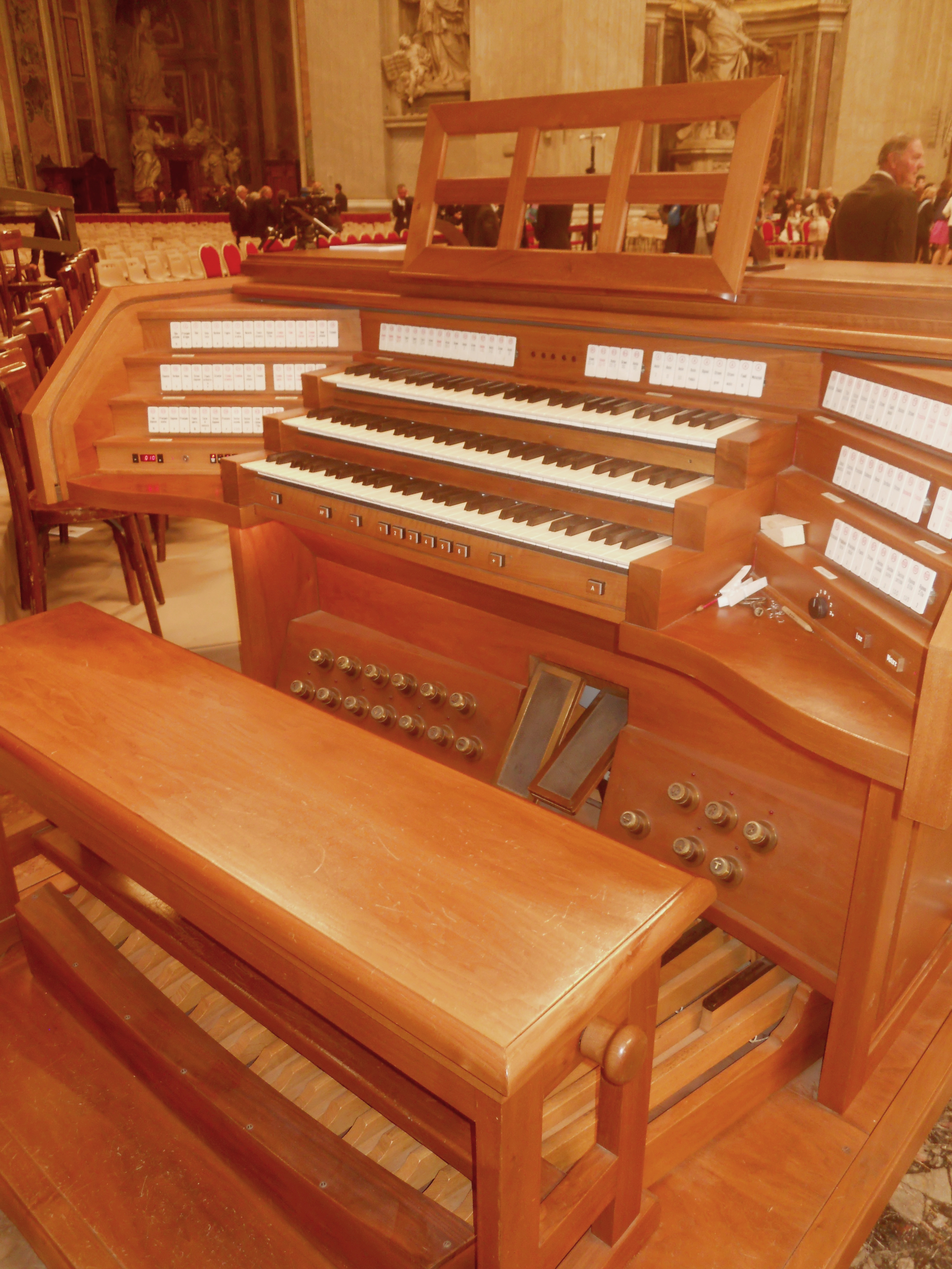 The Mascioni consolle of St. Peter's Basilica main organ.